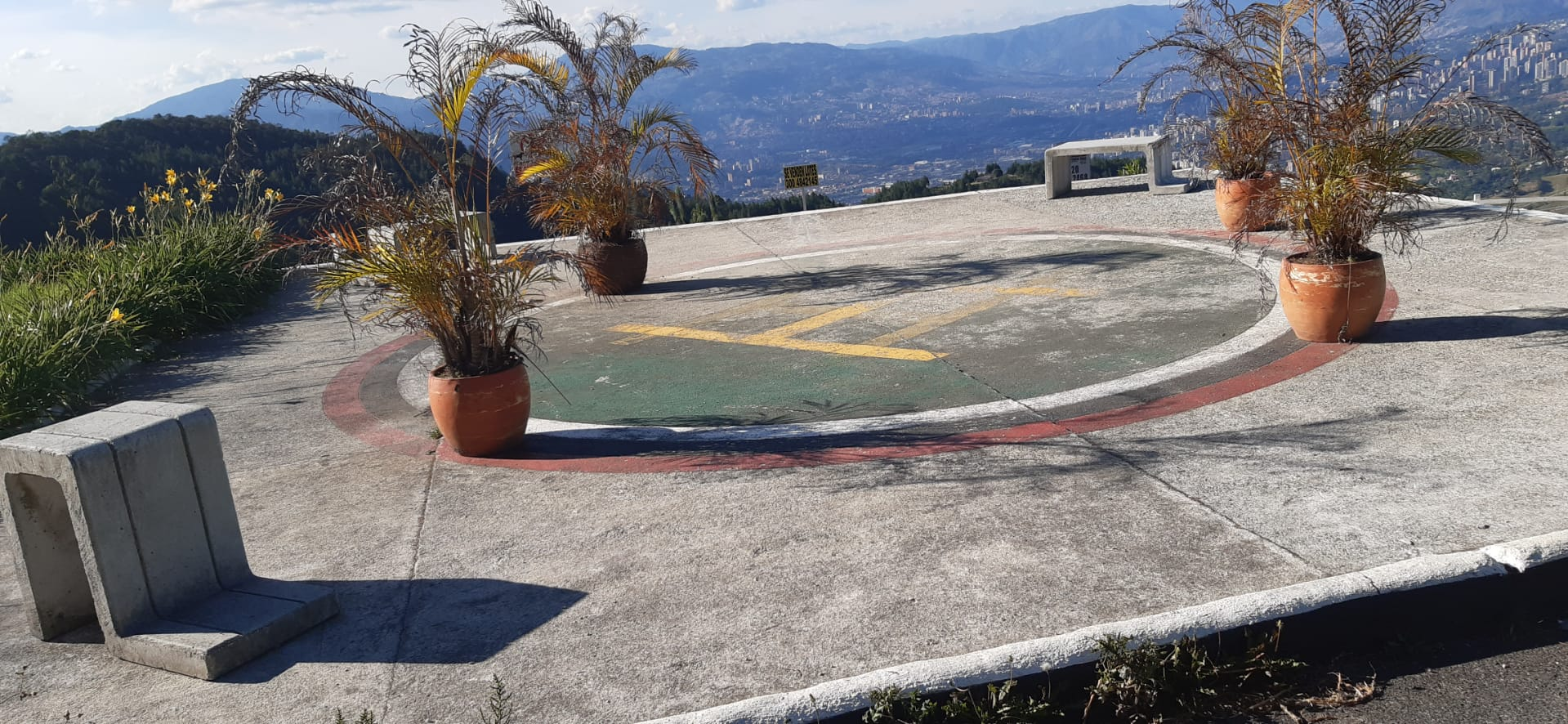 Helipad at La Catedral, the former Pablo Escobar prison overlooking the City of Medellin